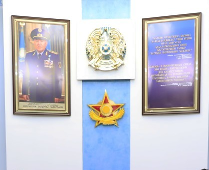 The Russian military delegation led by the commander of the Central Military District, Colonel General Alexander Lapin, has arrived in the Republic of Kazakhstan.